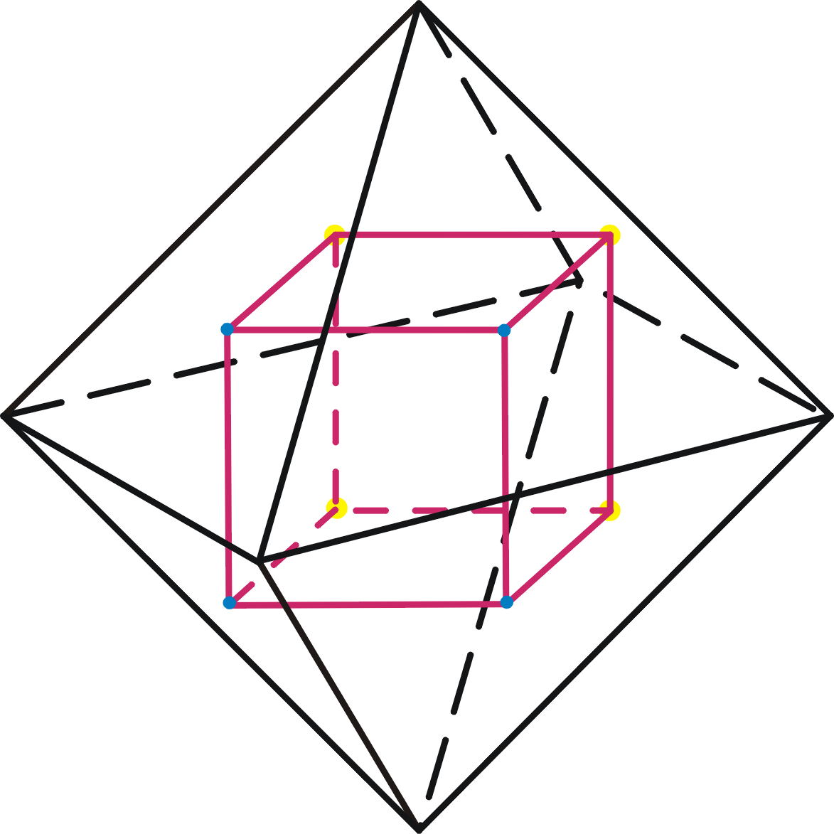 Hexahedron dual to Octahedron.